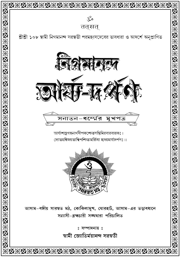 Swami Nigamananda's Sanatana Dhrama Patrika- 'Arya Darpan'